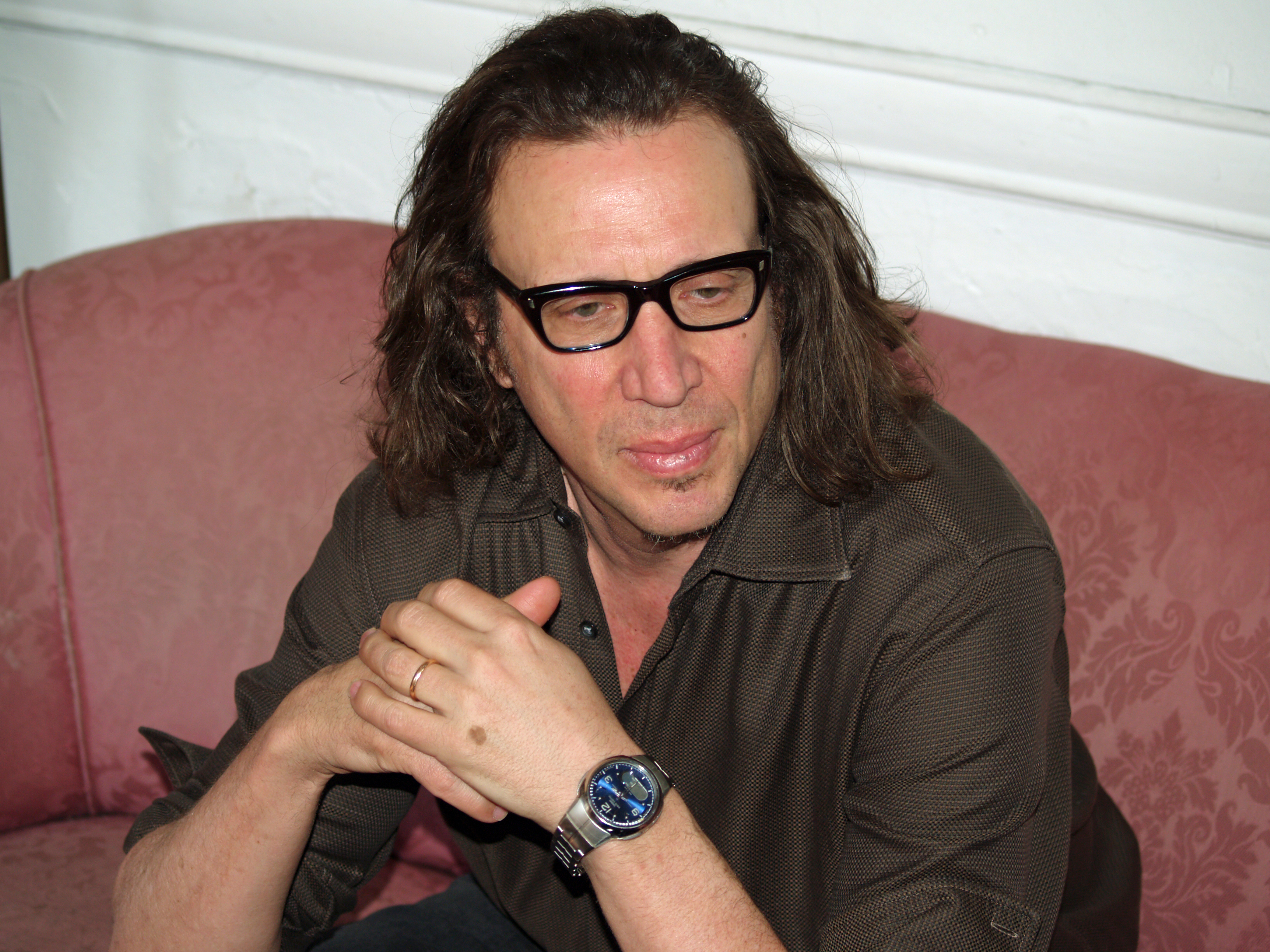 Punk pioneer, poet, filmmaker, and writer Richard Hell